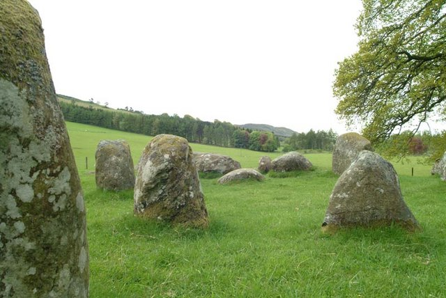 Croft Moraig Stone Circle Originally built some 5,000 years ago, this stone circle was altered during its 1,000 year life before falling into disuse. The outer stones are the latest additions, made around 2,000BC.